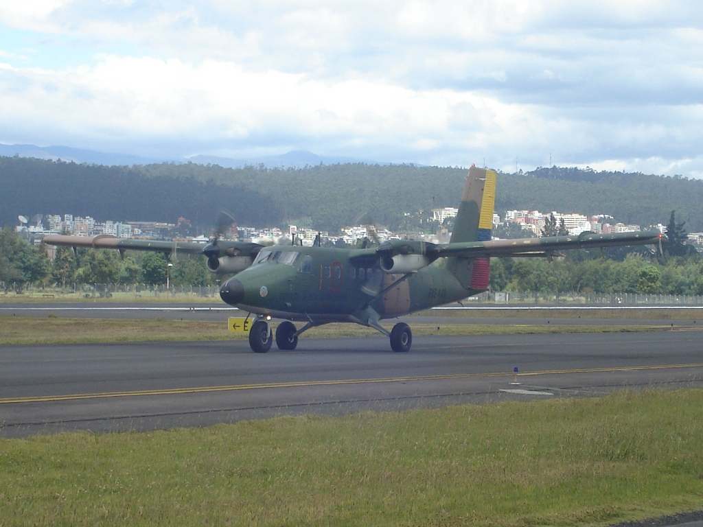 Avion Twin Otter